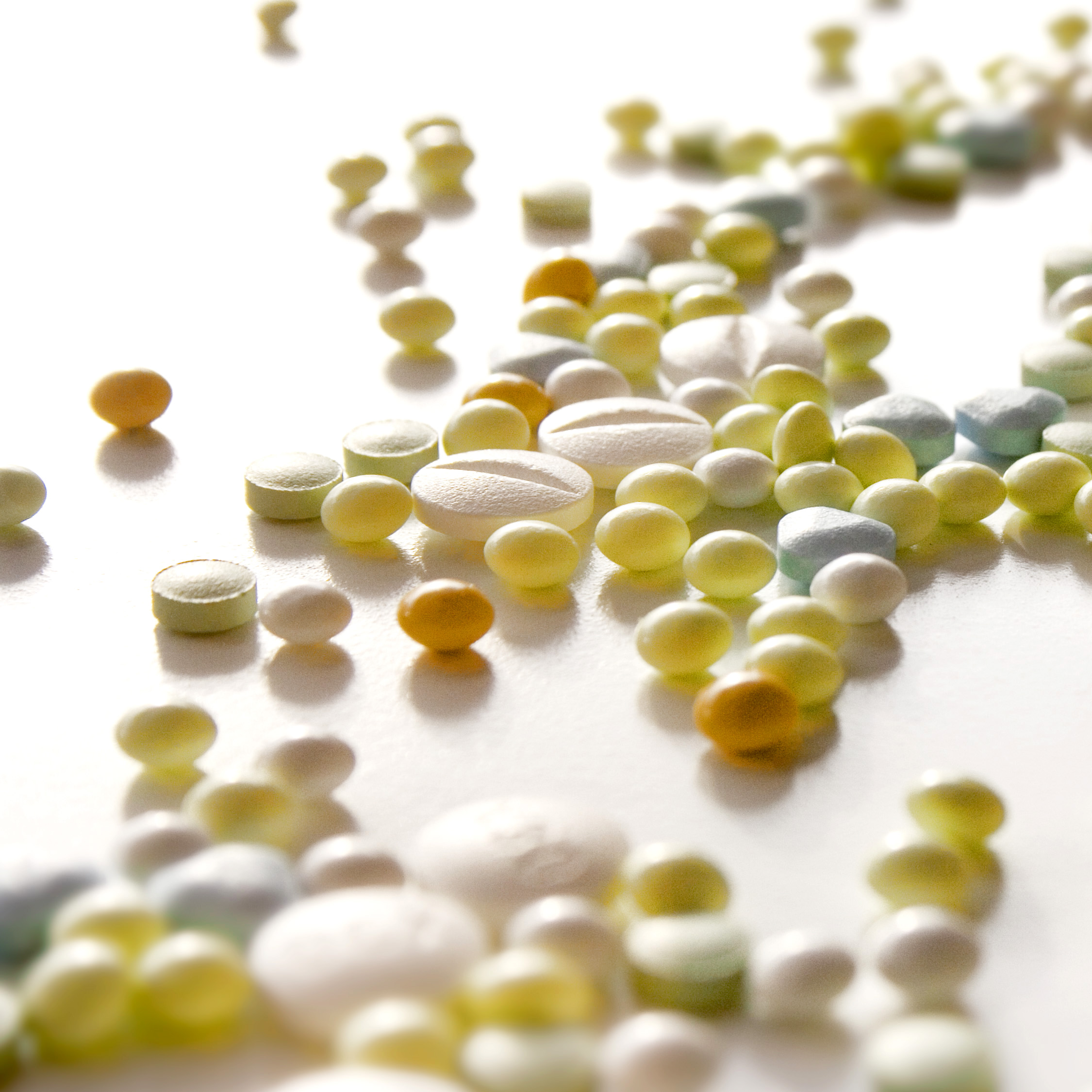 No name pharmaceutics - Budapest, Hungary